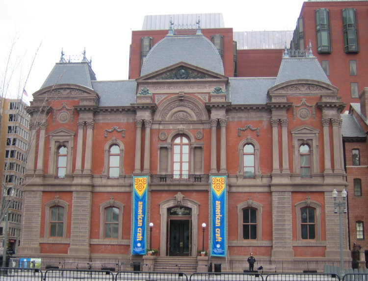 The Renwick Gallery in Washington, D.C. Photo taken 10 Feb 2006. Category:Images of Washington, D.C.